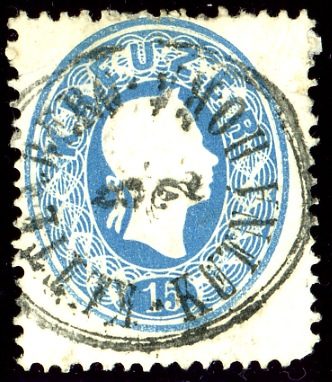 Austrian KK 15 kreuzer stamp, issue 1861, bilingual cancelled in KUTTENBERG - KUTNA HORA, Bohemia, Mueller unique type R2P-f, 6x3 P